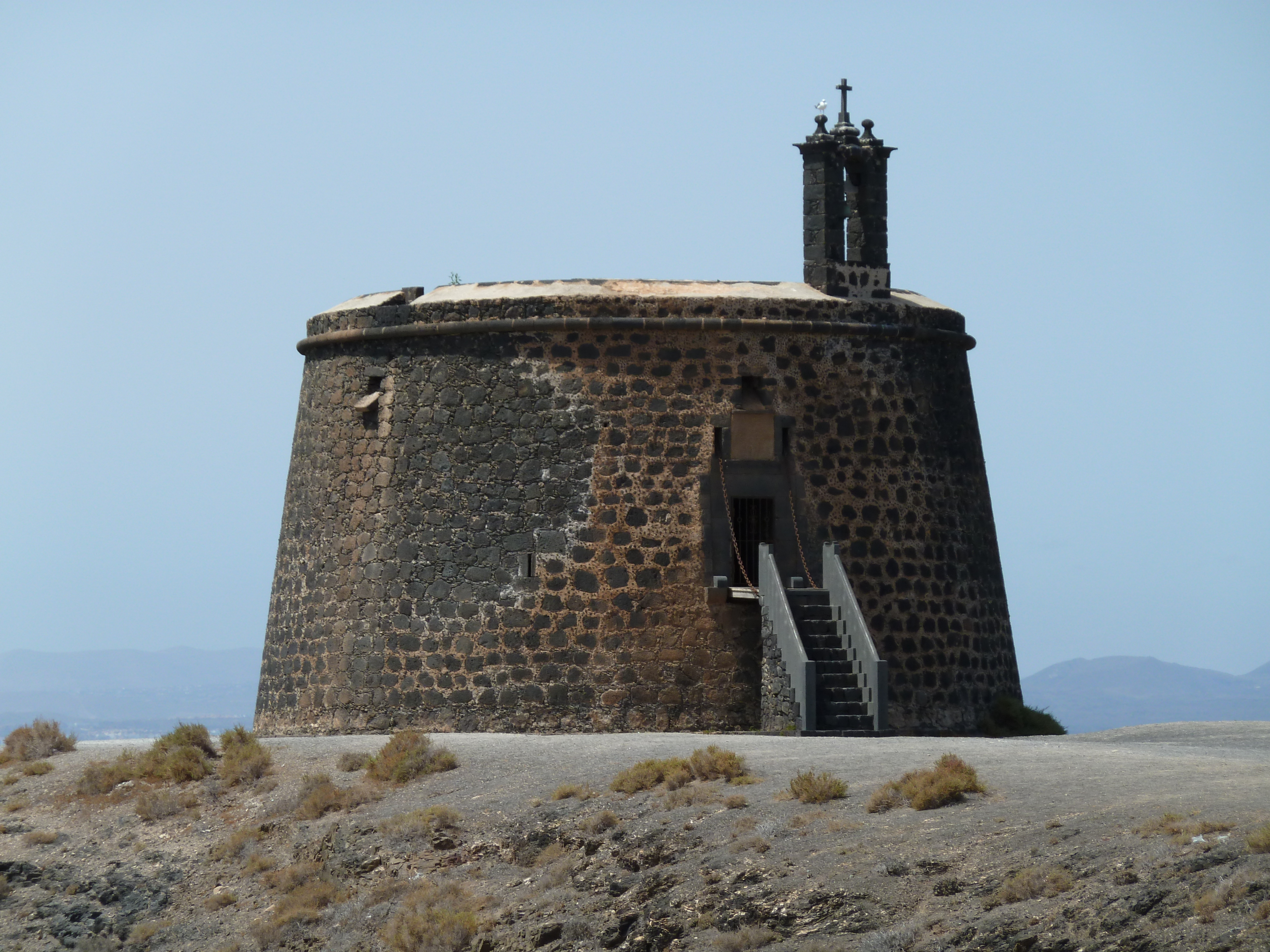 Castillo de las Coloradas near Playa Blanca, Lanzarote